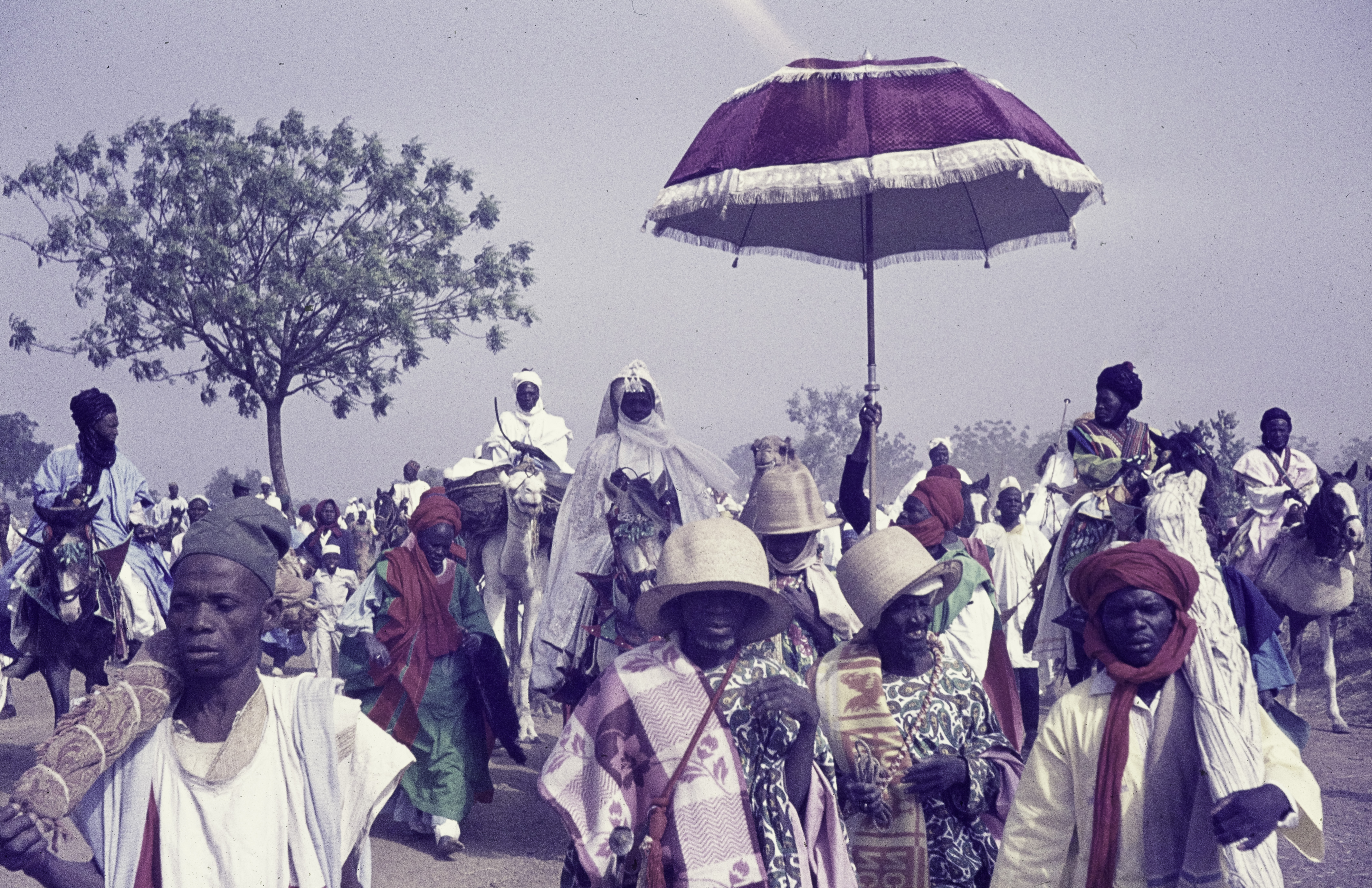 Sallah festivities in Bauchi. Group outside in white, red and green. Riders on camel and horse, red-white parasol for the ceremonial ruler of Bauchi.